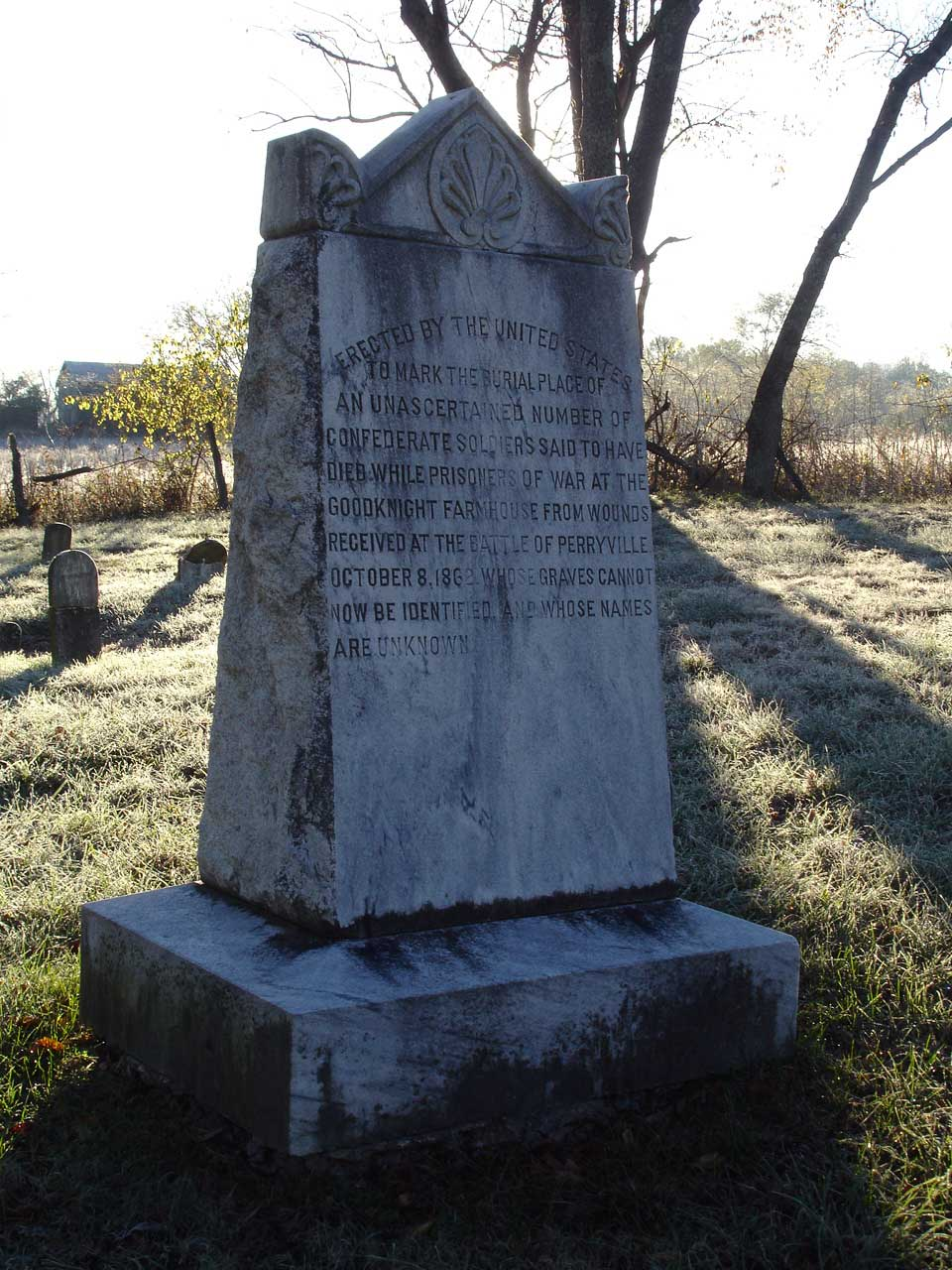 Photo taken at the Perryville battlefield: U.S. marker for Confederate burials at the Goodknight farm.